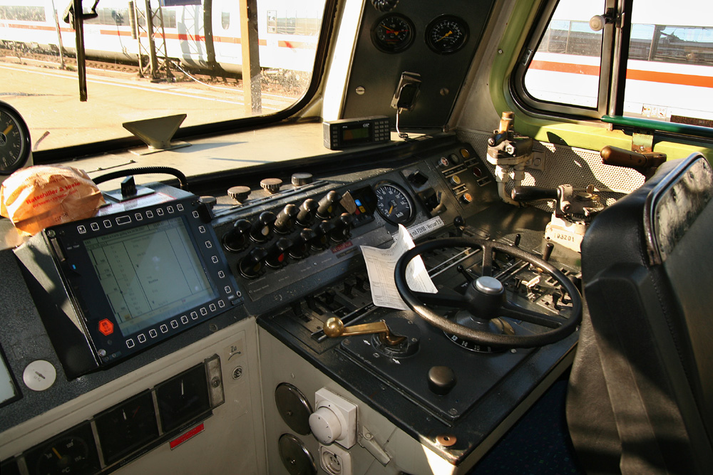 Driver's cab of a DB class 218 locomotive.